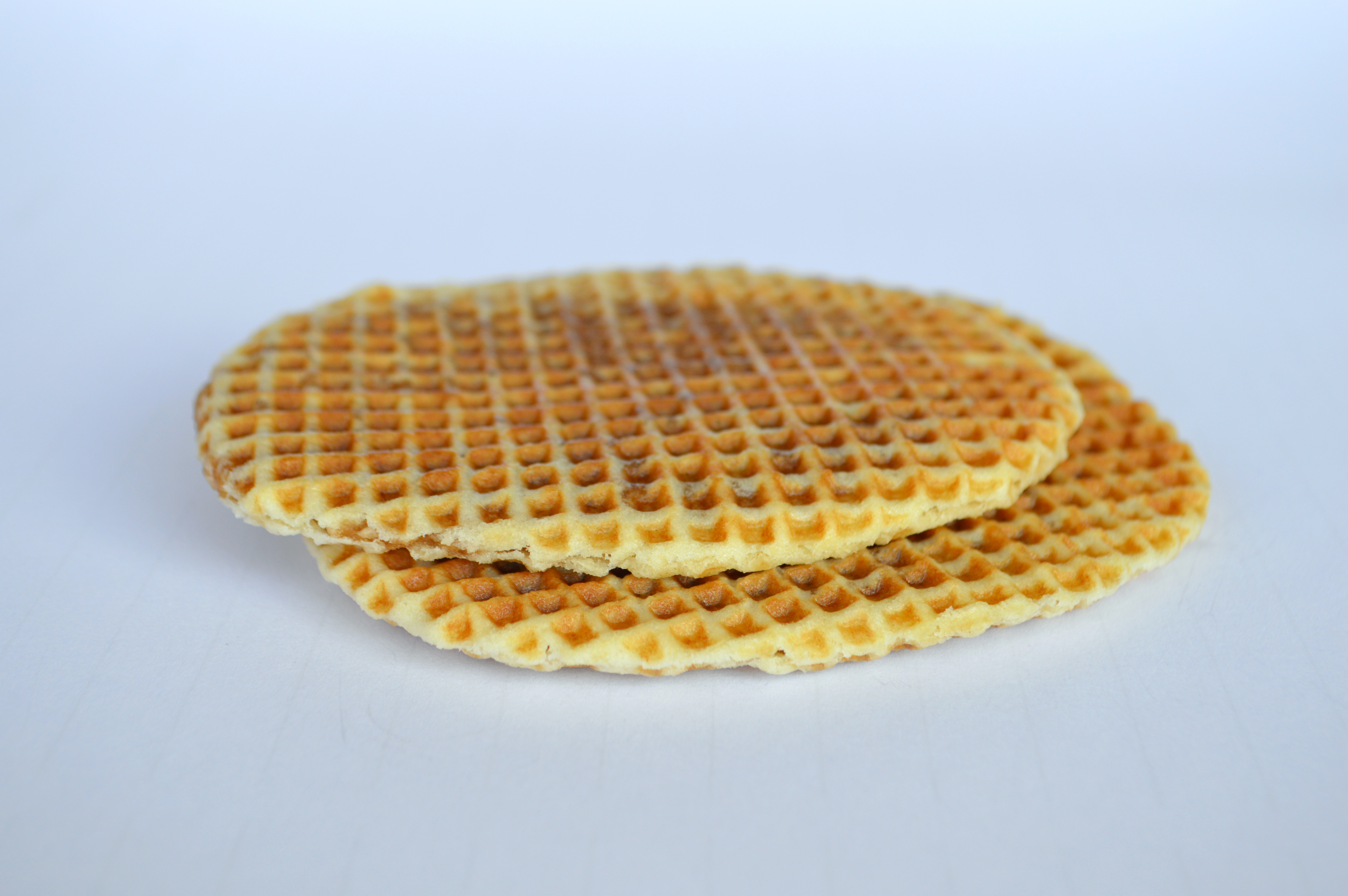 Two little waffles filled with cassonade sugar, a specialty of Lille. Factory-produced and bought at Aldi.